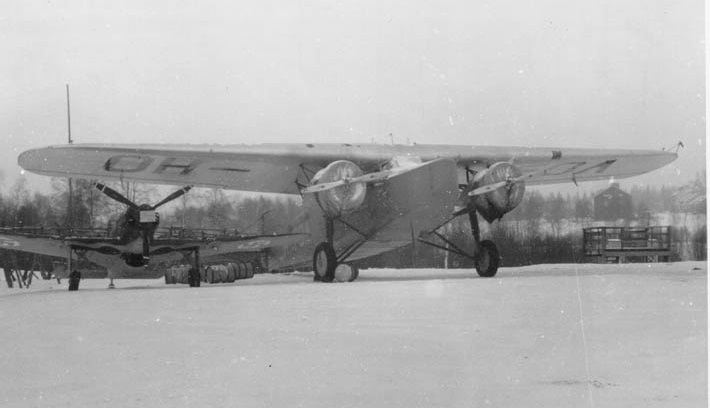 OH-FOA has arrived at Tampere in November 1940. The aircraft was later donated to the Finnish Air Force that flew it until 27. september 1941. Photo from Eino Ritajärvi collection.